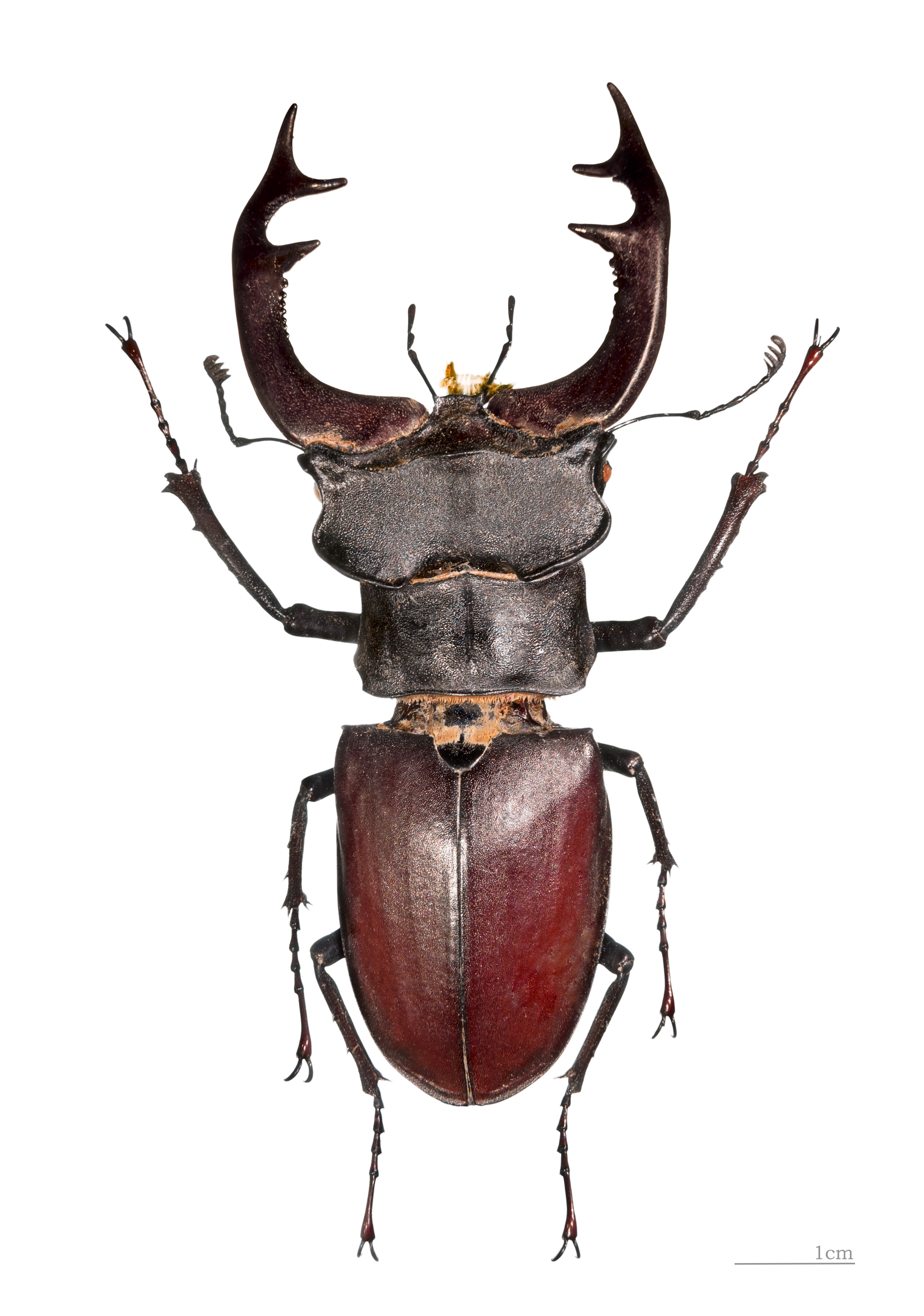 Stag beetle, Dorsal side